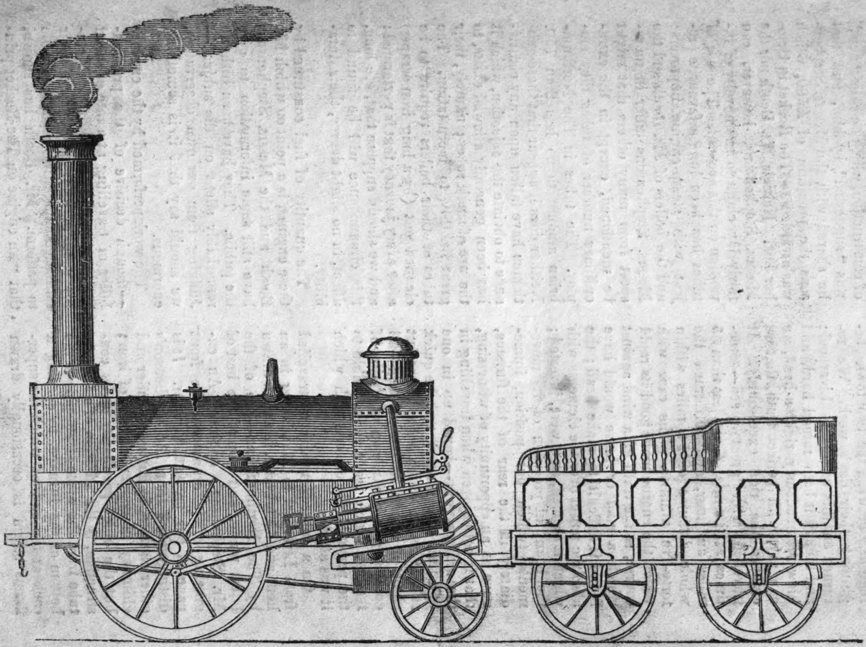 Side view engraving of Robert Stephenson's 0-2-2 locomotive Northumbrian and tender, built in 1830 for the Liverpool and Manchester Railway.